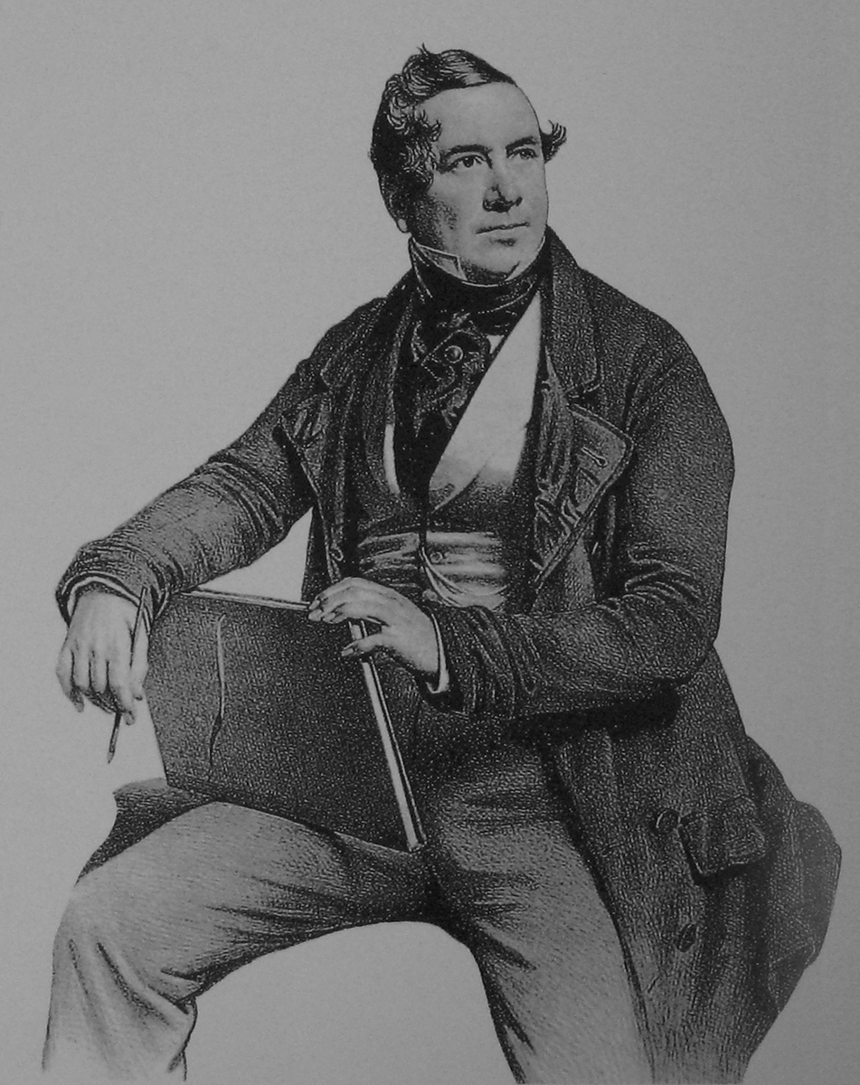 David Roberts: full-figure portrait, published in the first edition of "Egypt & Nubia" (1842)